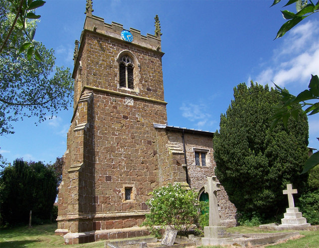 West tower of St Martin's parish church, South Willingham, Lincolnshire, seen from the south